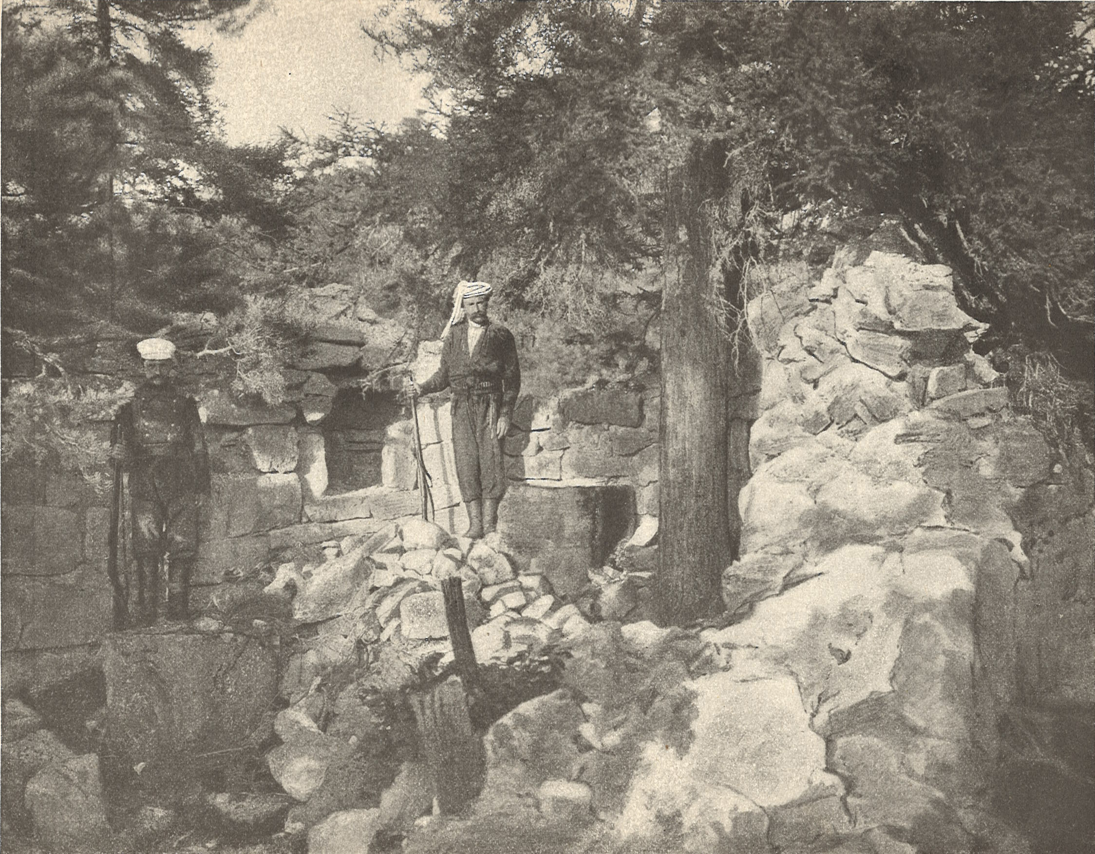 From Nicholas Marr's dairy of his travels to Shavsheti and Klarjeti (1911).